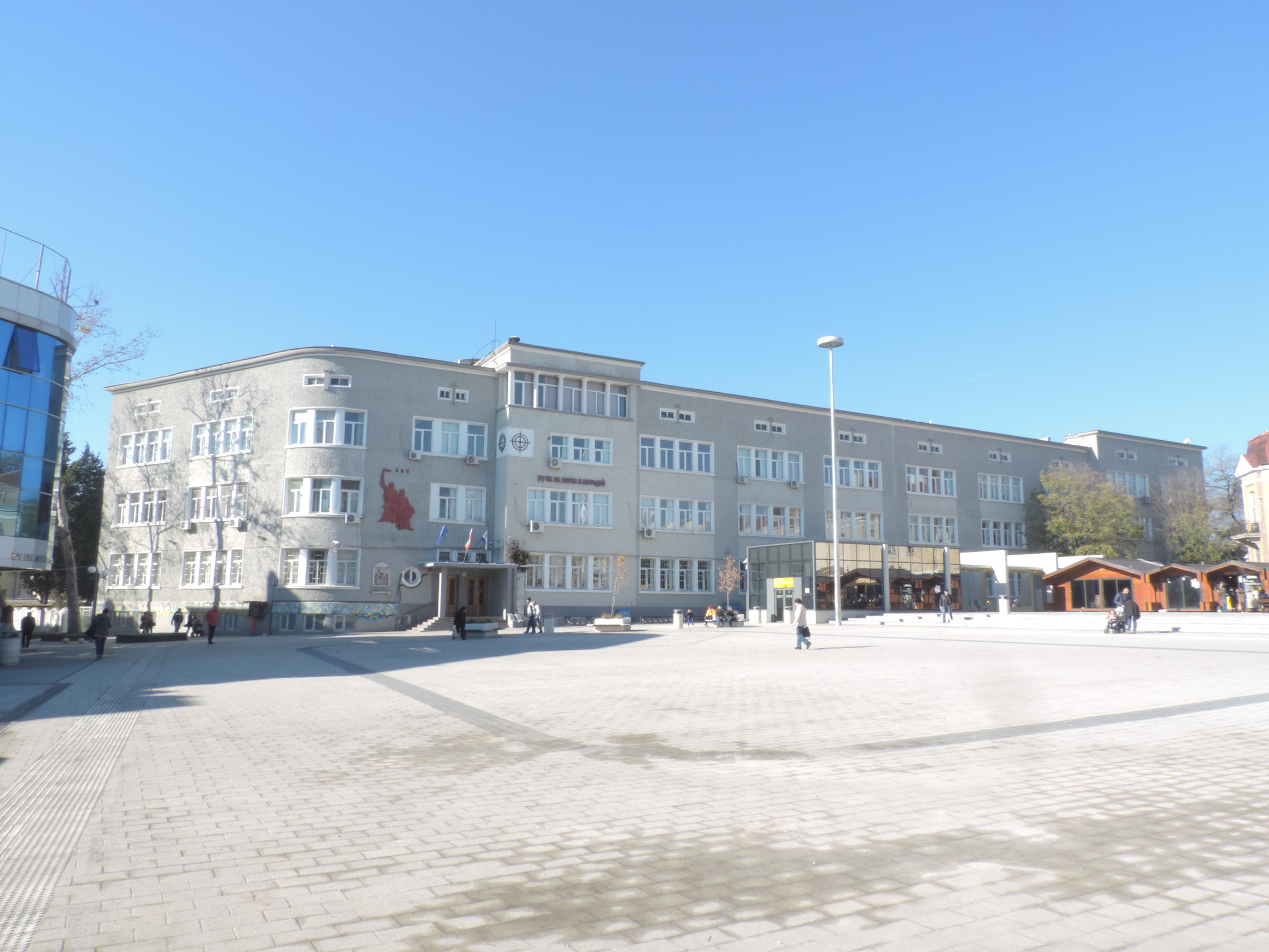 Category:Saint Cyril and Methodius School, Burgas